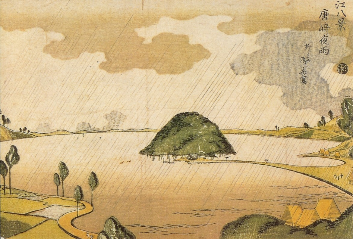 Omihakkie by Shinsai: Karasaki